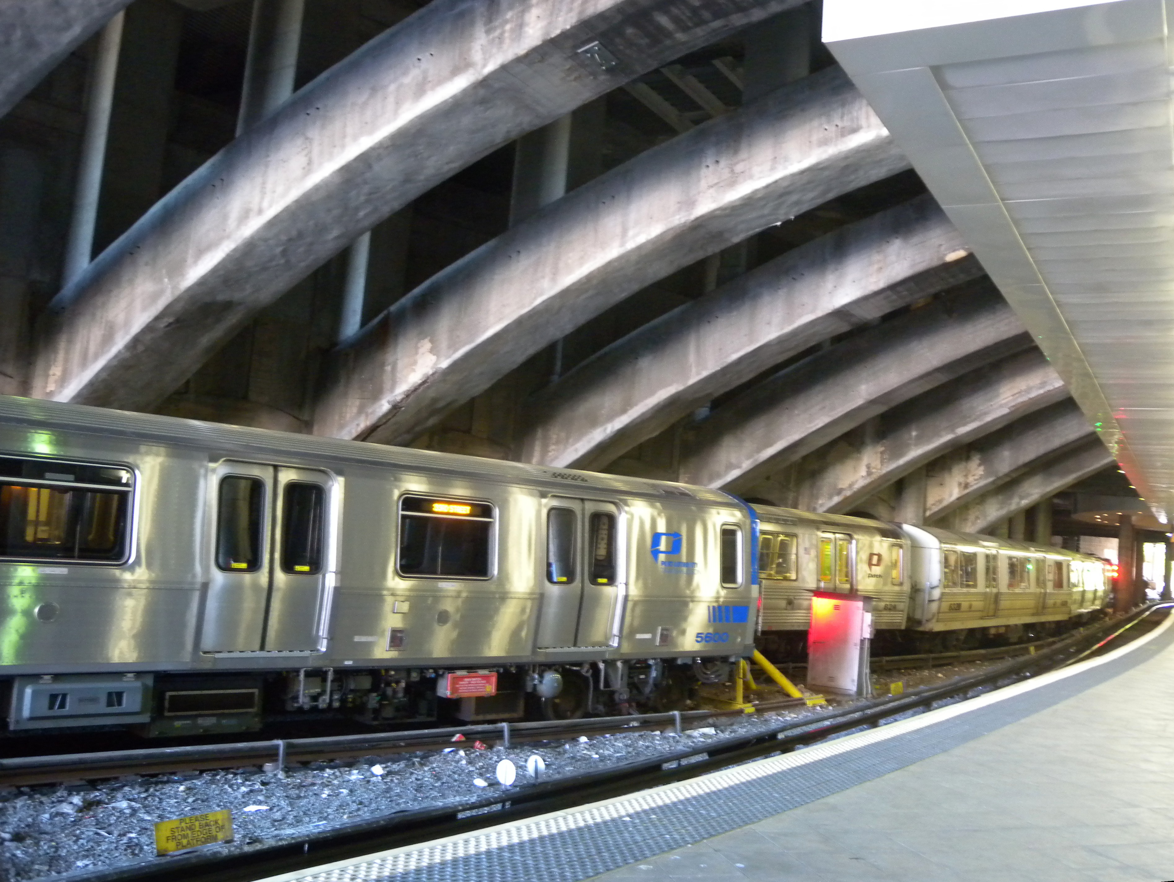 Looking east from western end of westbound platform, at arches and columns holding up the deck of Hudson County Boulevard on a sunny morning.